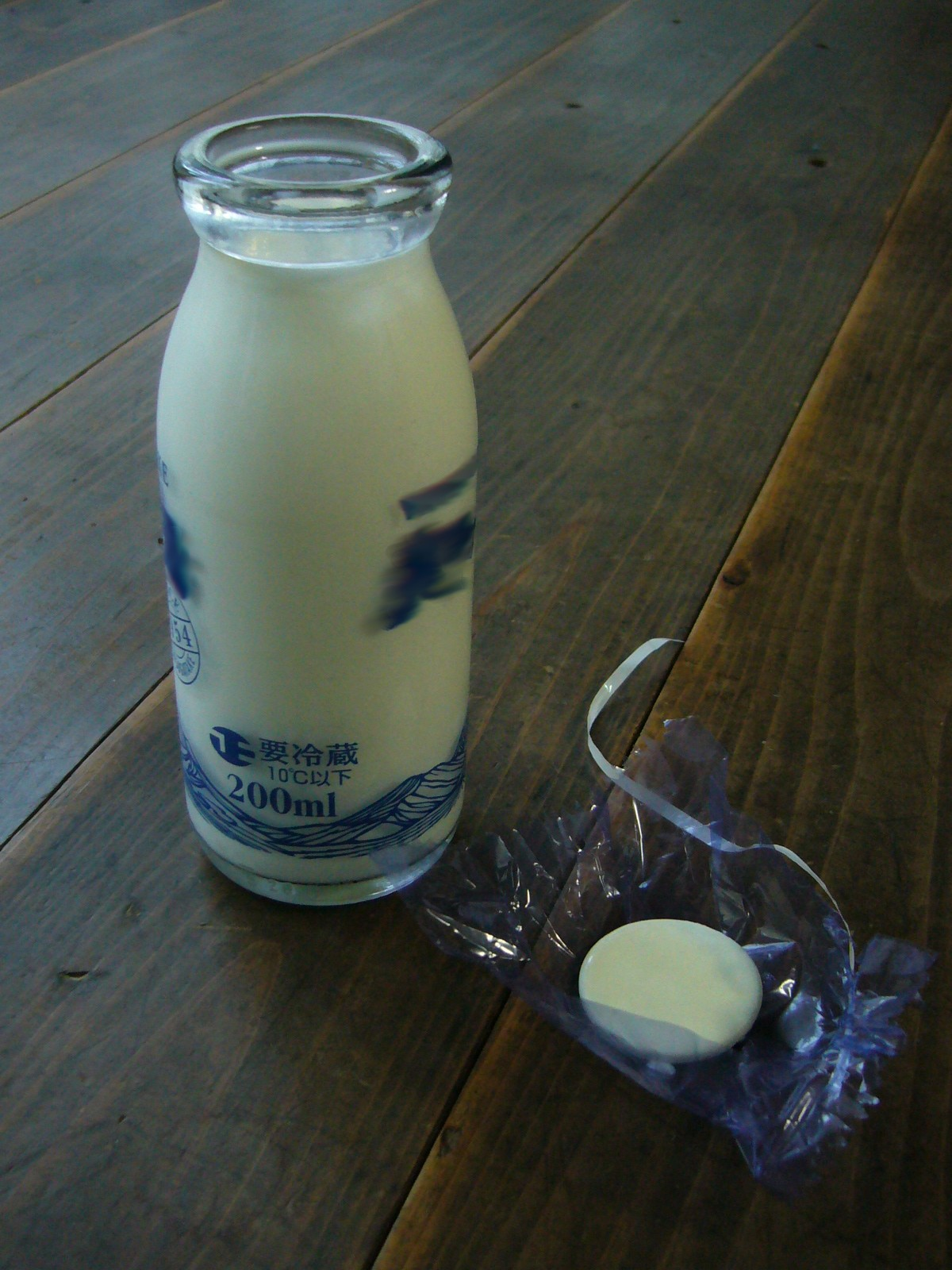 milk bottle & cap in Japan